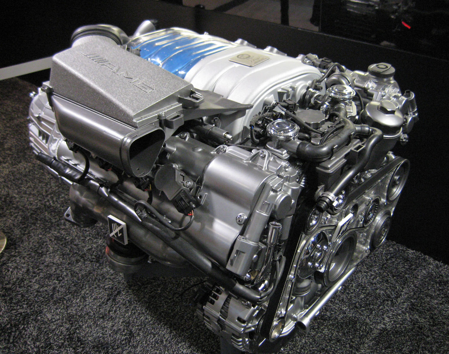 Mercedes-Benz M156 AMG 6.3L V8 DOHC Engine Cutmodel photographed in Tokyo Motor Show 2007